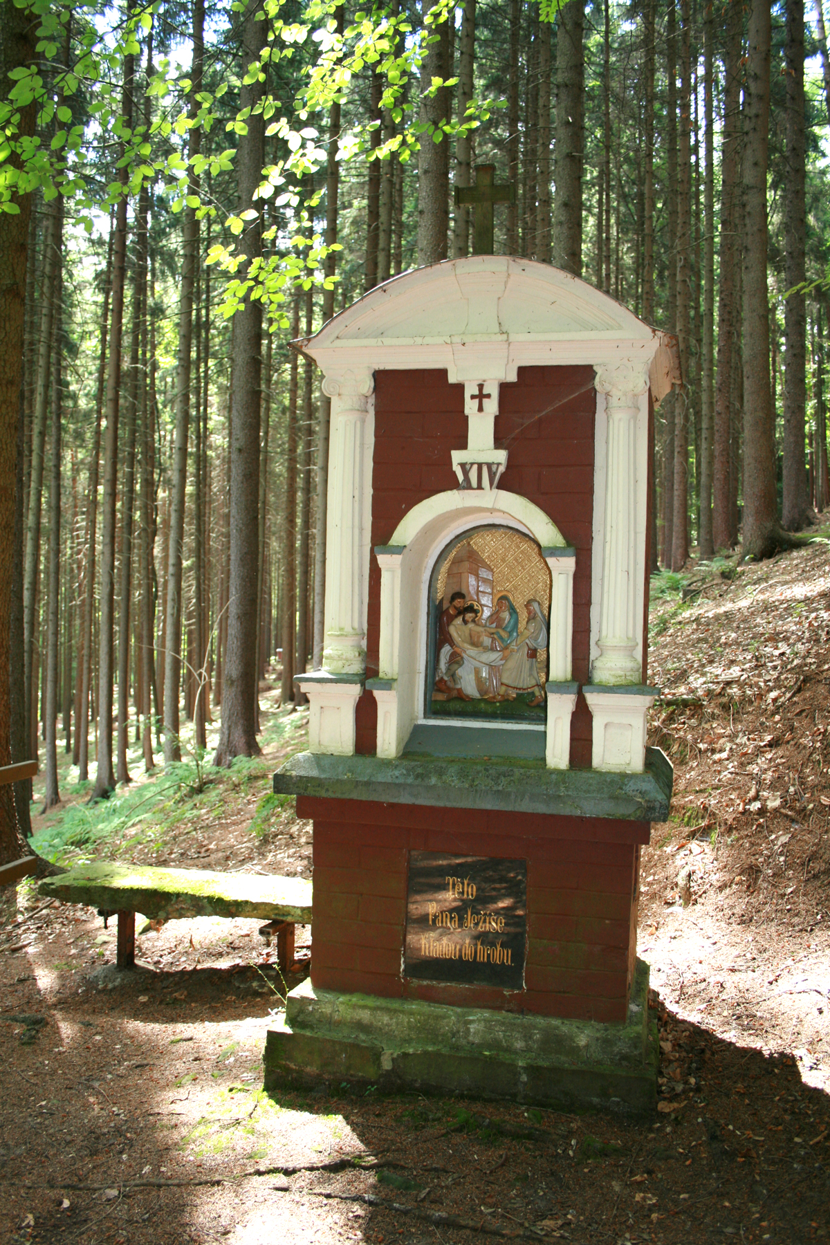 14. stop of Calvary near Přepychy, east Bohemia